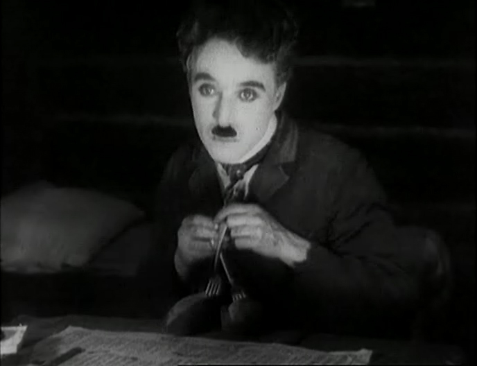 Scene from the movie The Gold Rush. 1925.